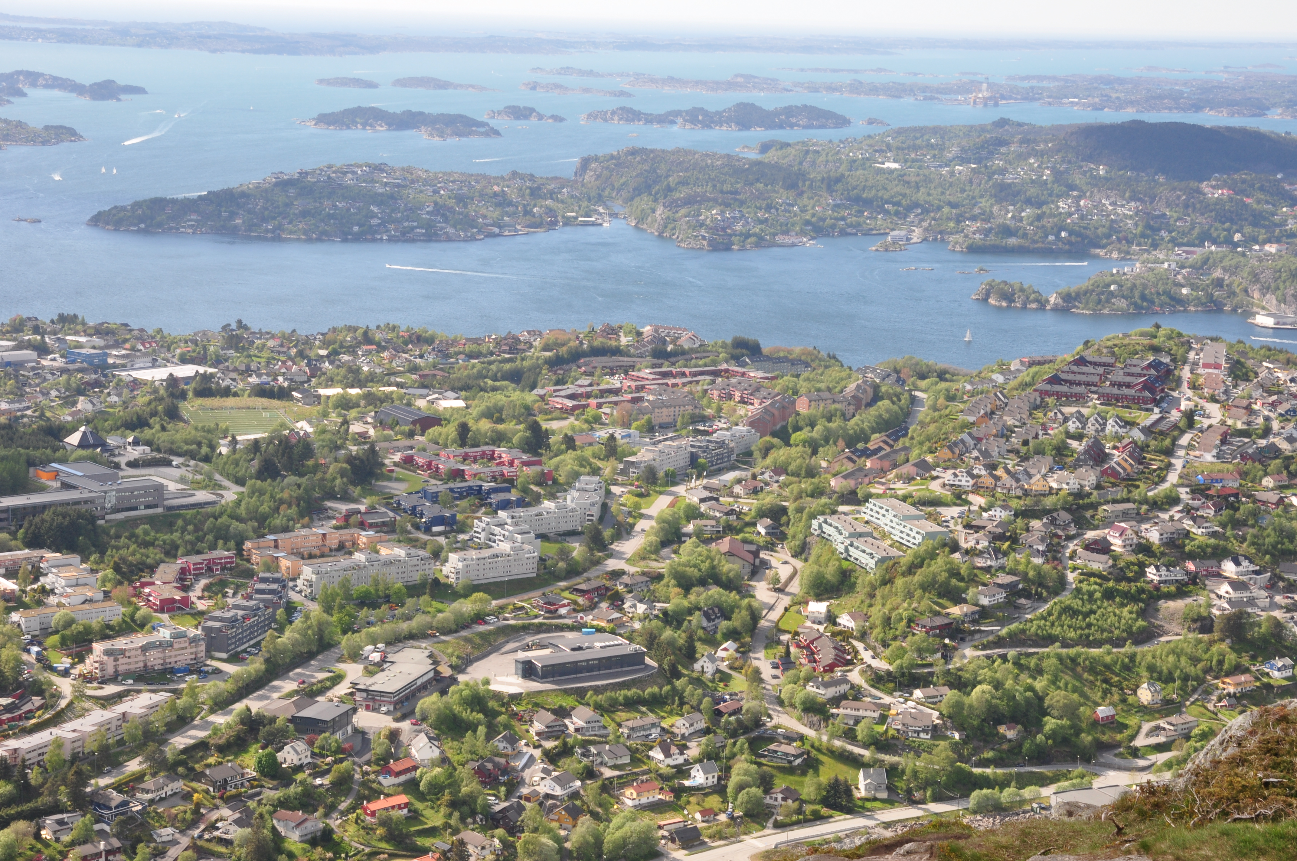 View of Olsvik seen from Lyderhorn